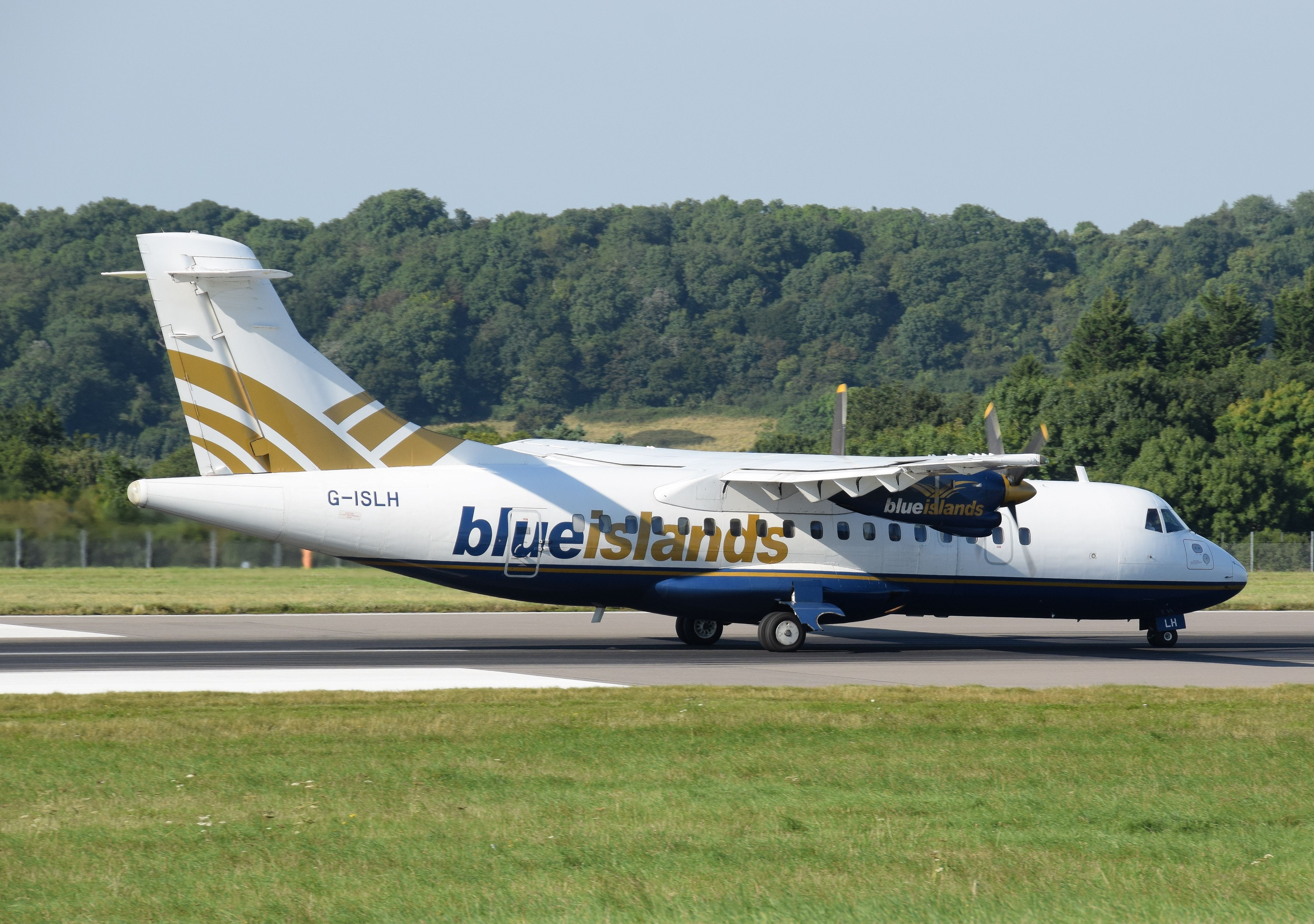 ATR 42-320 (G-ISLH) of Blue Islands at Bristol Airport, England. The airline was taken over by FlyBe in June 2016 and their aircraft will be repainted in FlyBe colours.